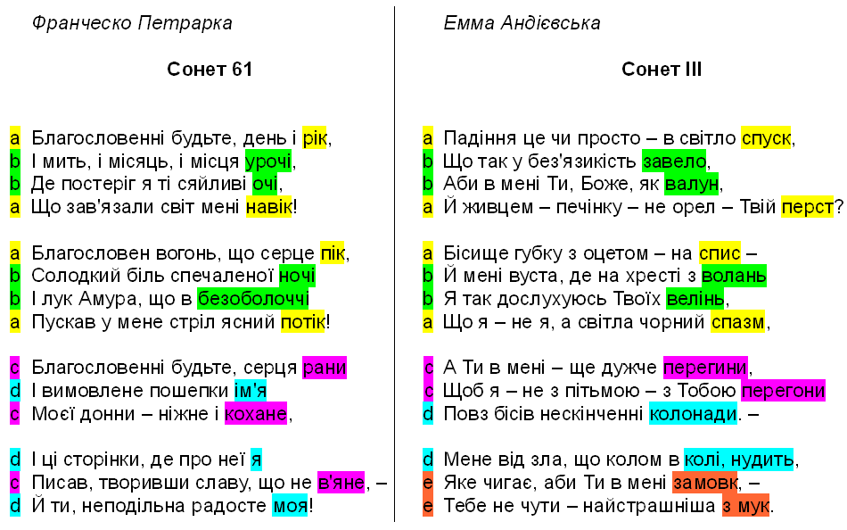 Petrarch vs Andijewska sonnets (in Ukrainian).